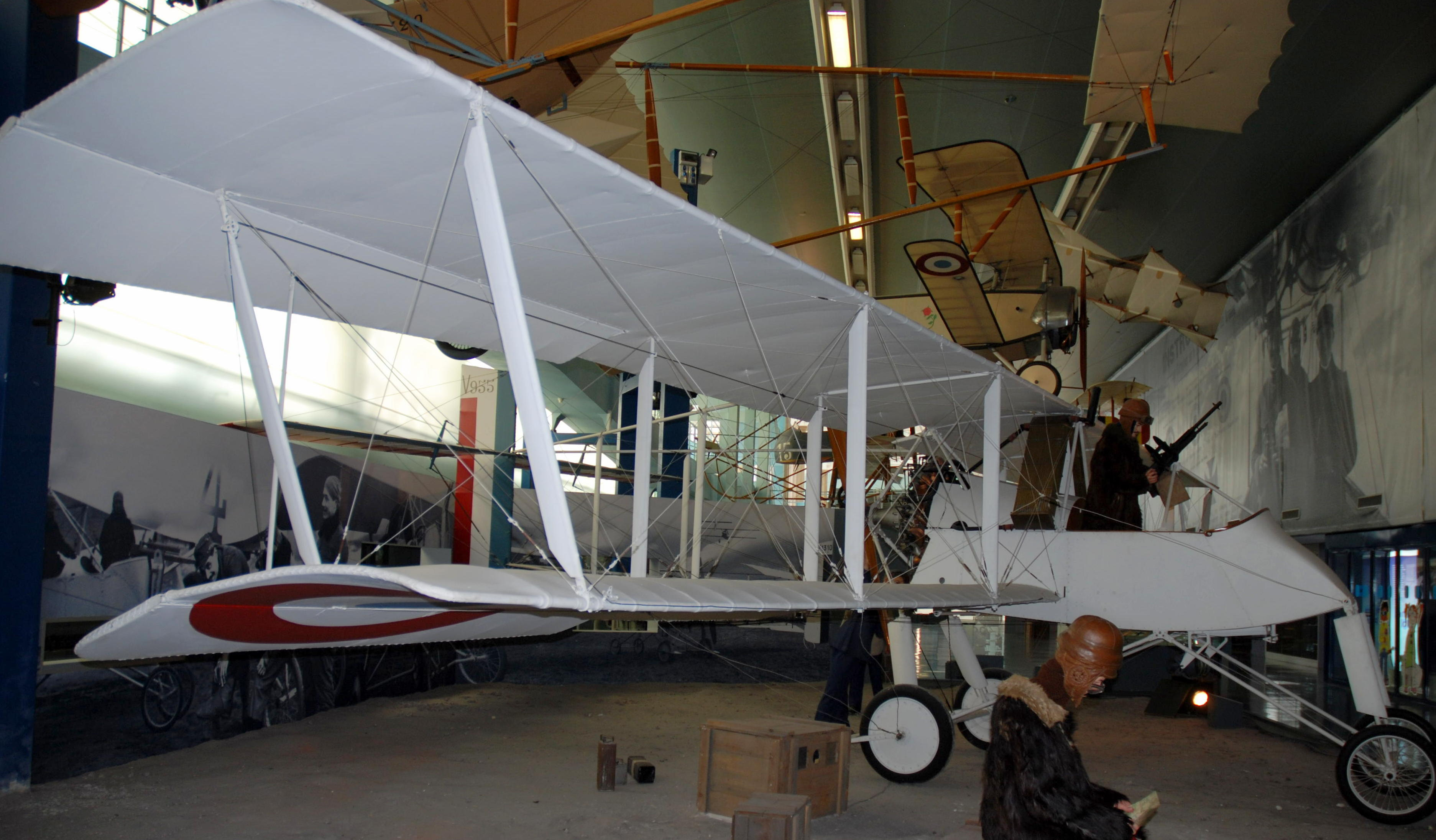 Photo ref; Nikon-D80-2013-DSC_1050 (Edited)